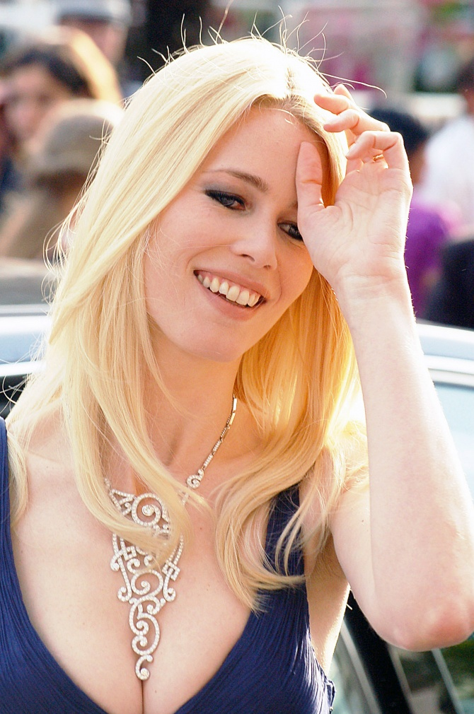 Claudia Schiffer at the Cannes film festival